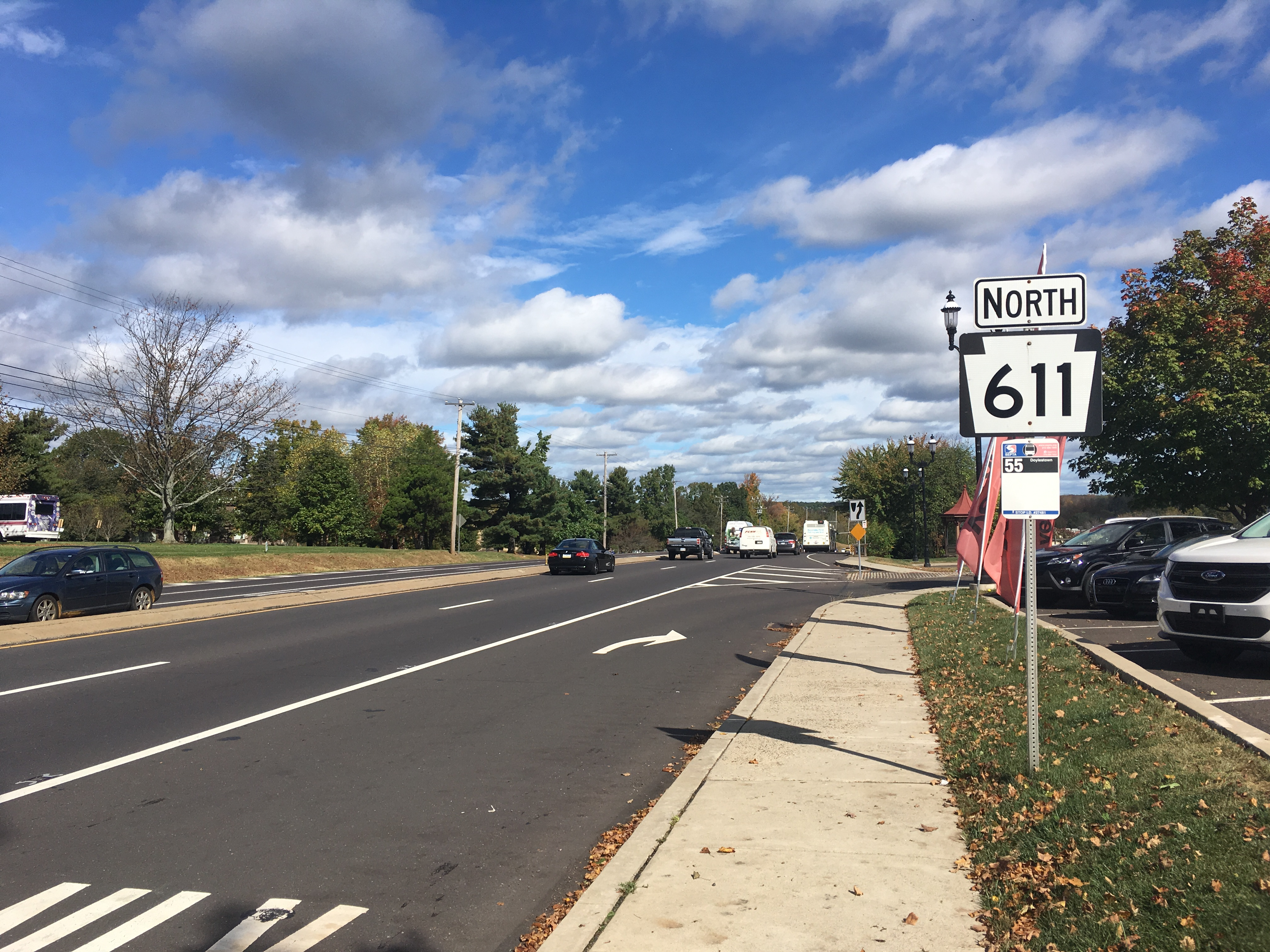 Northbound Pennsylvania Route 611 (Easton Road) past the intersection with Almshouse Road in Doylestown Township, Pennsylvania.